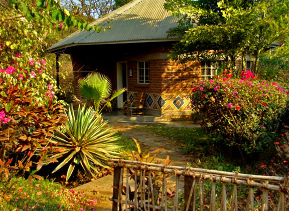 A Chalet of the Kungoni Hostel